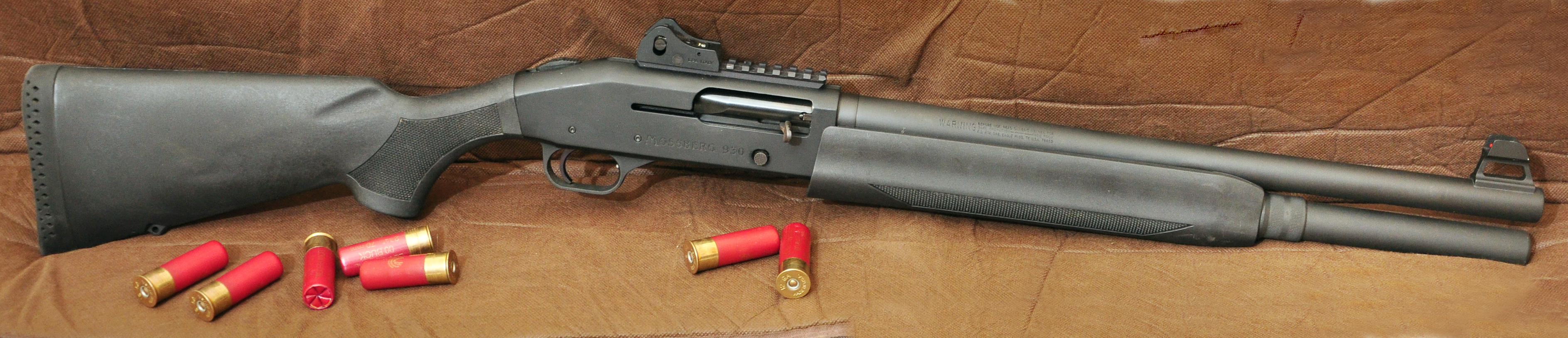 Mossberg 930 SPX surrounded by 2-3/4" 00 Buck.